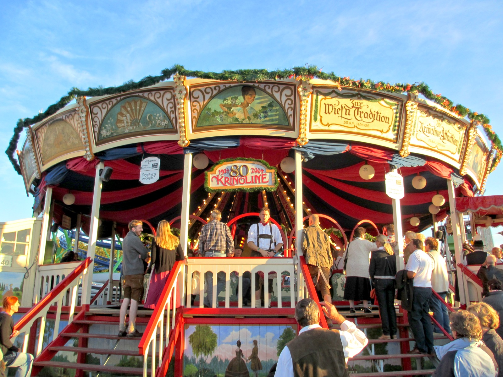 Krinoline at Oktoberfest